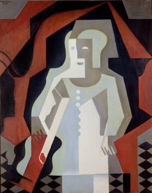 Painting by Juan Gris: Pierrot (1919).